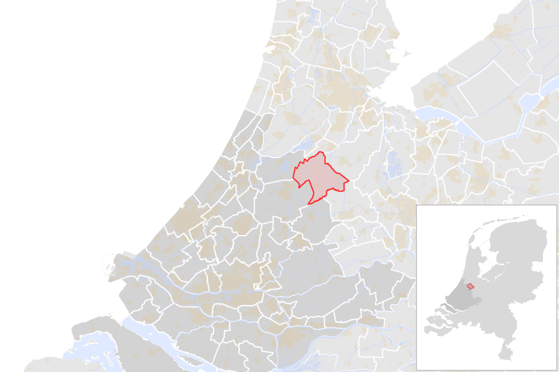 Locator map showing municipality boundary of one of the 390 Dutch municipalities (as of 2016)